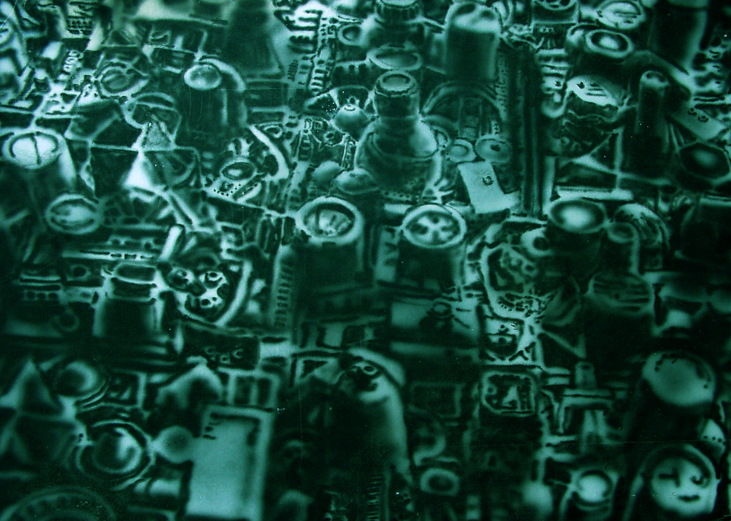 Exemple of airbrush picture